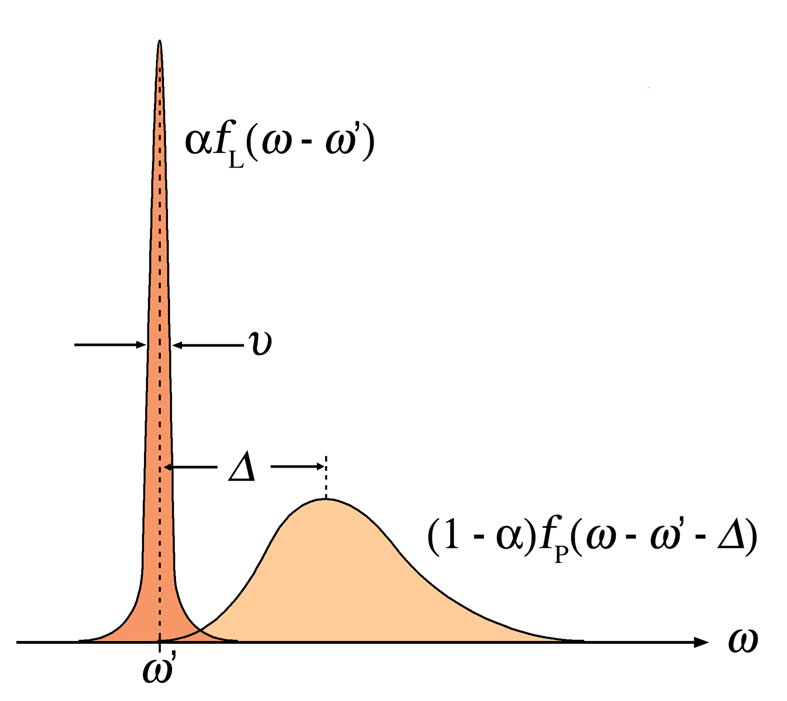 Illustration of zero-phonon line and phonon side band. Created by Mark Somoza based on figures in: J. Friedrich and D. Haarer (1984). “Photochemical Hole Burning: A Spectroscopic Study of Relaxation Processes in Polymers and Glasses”. Angewandte Chemie International Edition in English 23, 113-140.